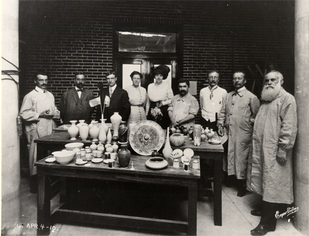 Art Academy of the People's University, 1910. The people are, from left to right, Frederick Hurten Rhead, Samuel Robineau, Edward Gardner Lewis, Adelaide Alsop Robineau, Mabel Gertrude Lewis, Eugene Labarriere, George Julian Zolnay, Emile Diffloth and Taxile Doat.